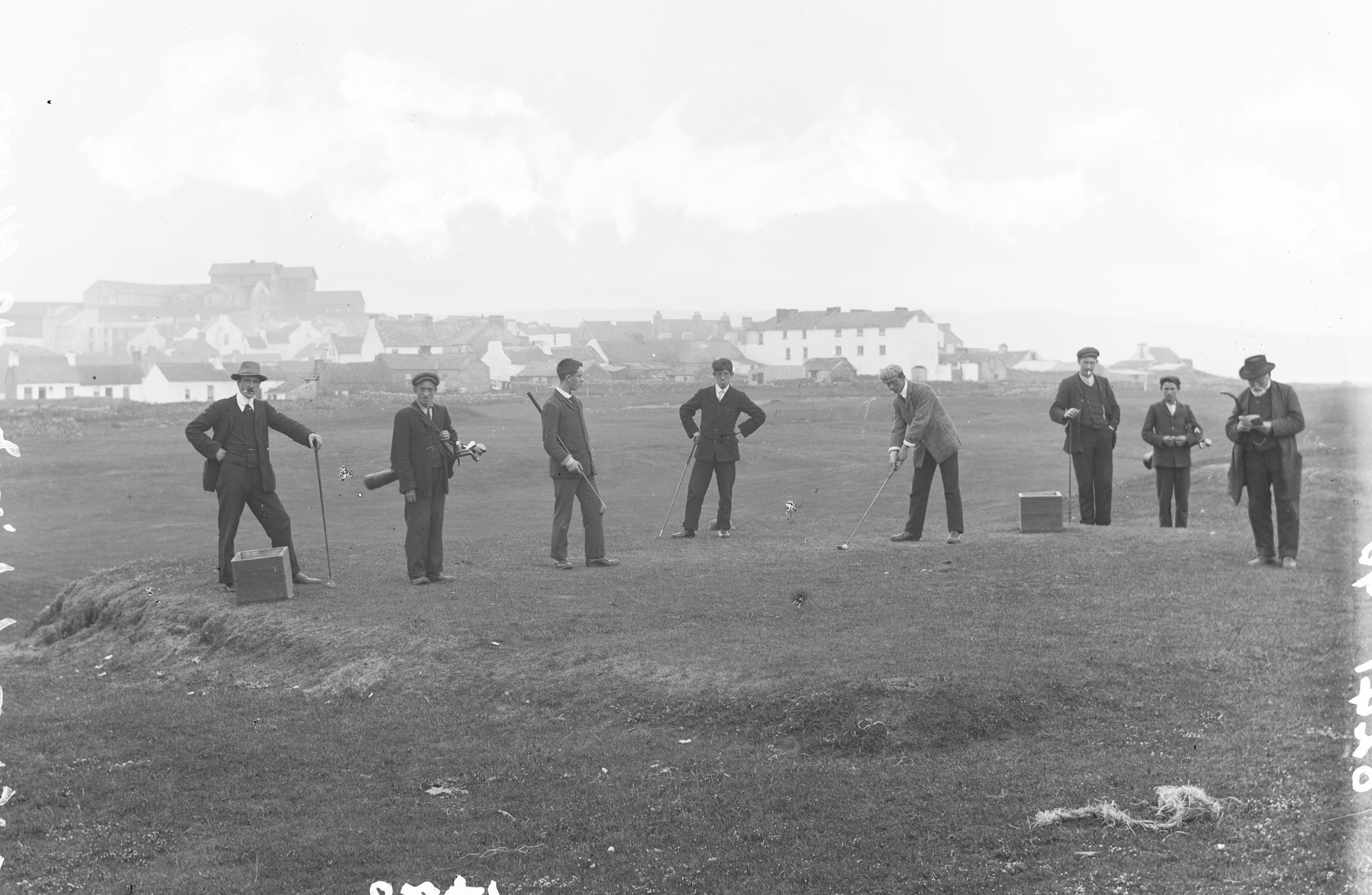 Eight golfers (including caddies) at Lahinch, Co. Clare, although there seems to be rather more smoking than golfing going on... Date: Circa 1897 NLI Ref.: L_CAB_06241